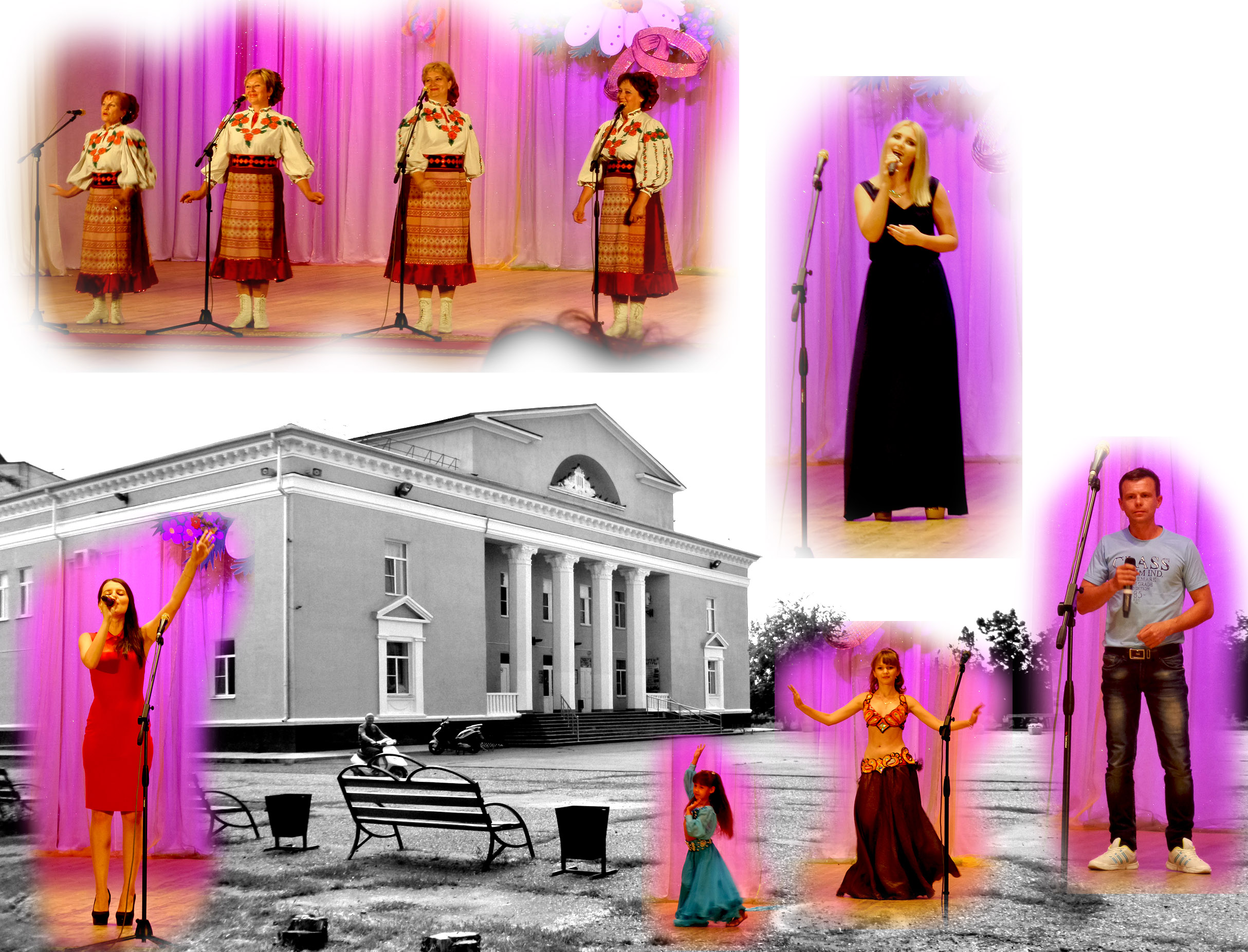 Peformance of singers and dancers on the Peter and Fevronia Day, 2015. Palace of Culture. (Stanitsa Vyshestebliyevskaya).